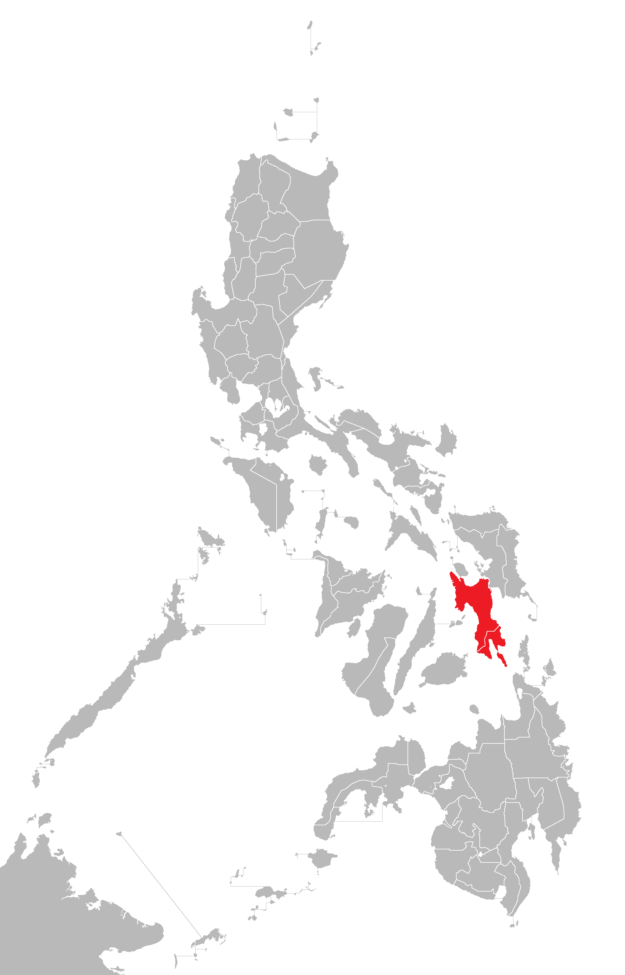 Derived from File:BlankMap-Philippines.png Map of Leyte Island In red